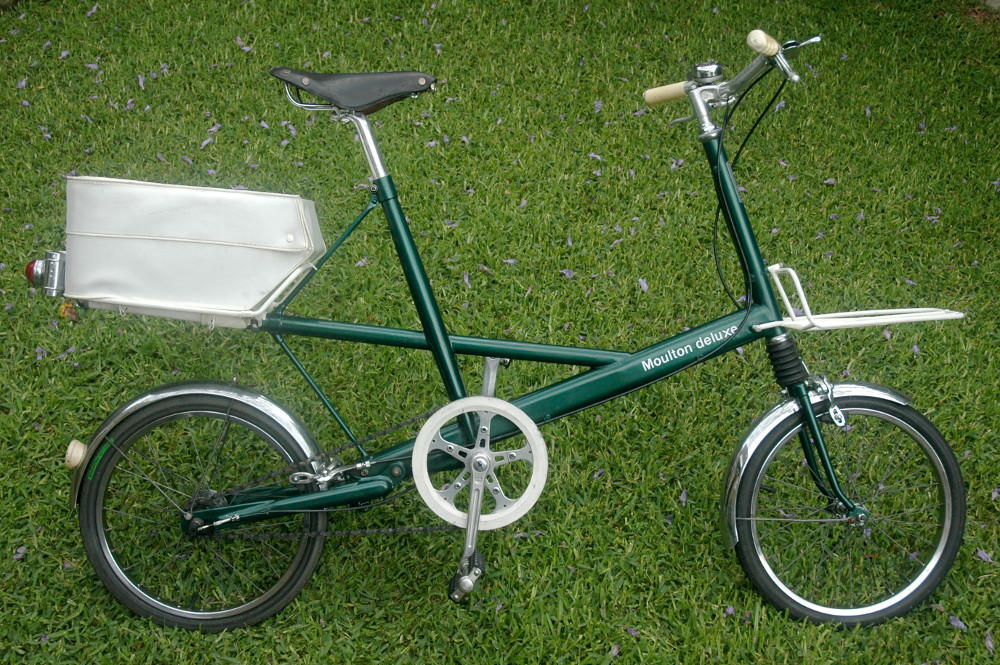 1965 Series 2 Moulton drive side